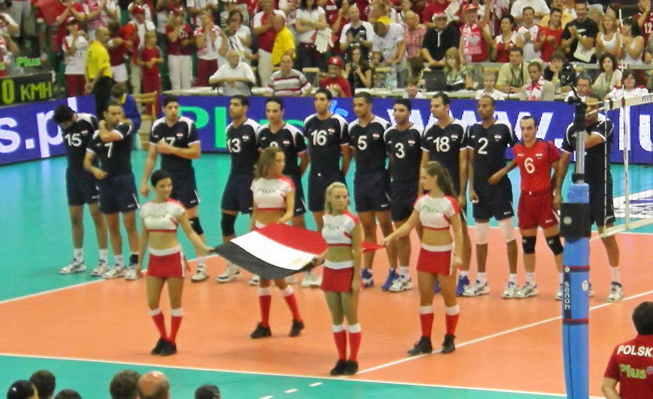 Egypt men's national volleyball team Volleyball World League - match Poland - Egypt (3:0), Arena Sports Hall, Poznań, Poland